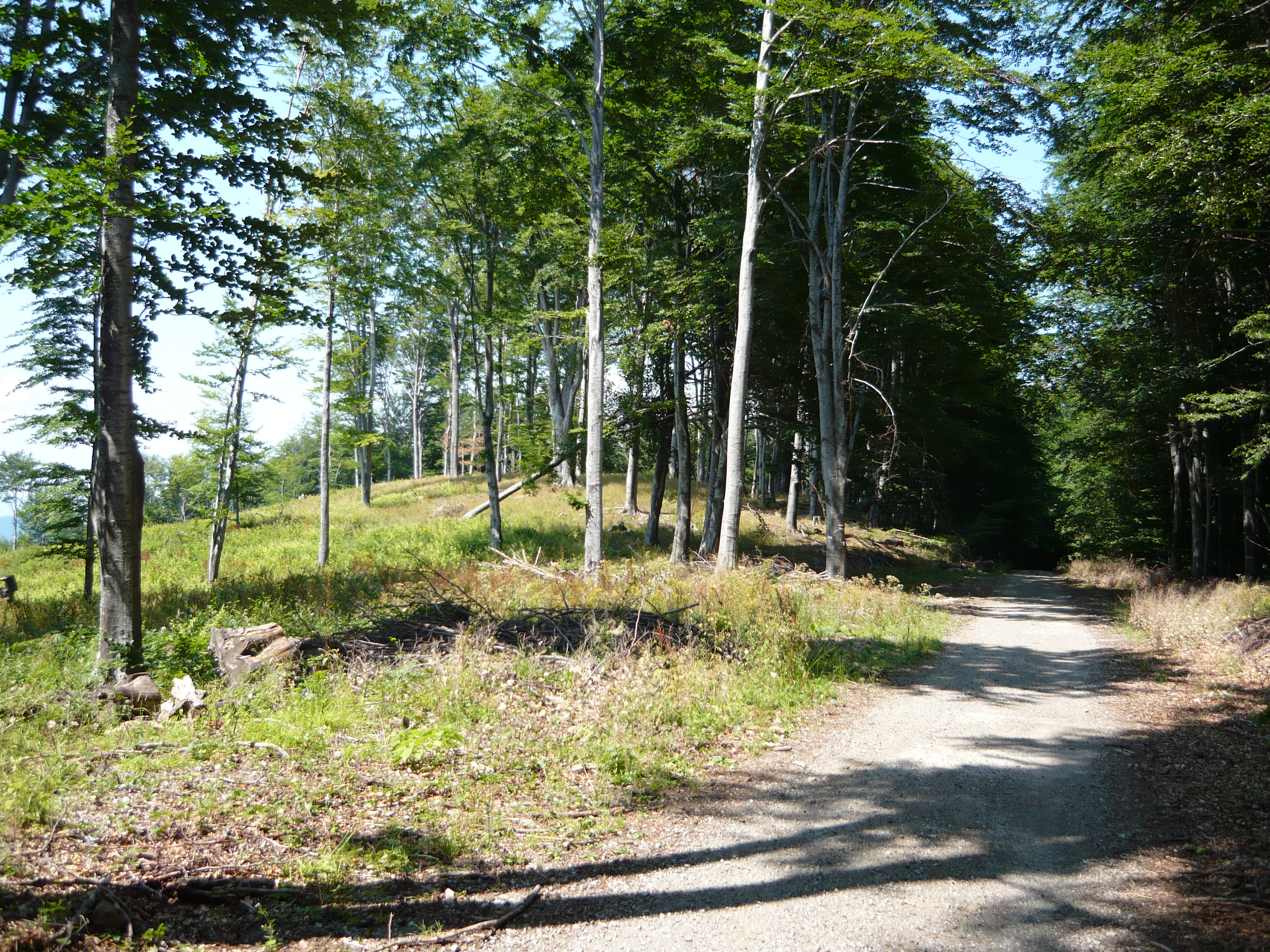 Осеникова поляна в Стара планина